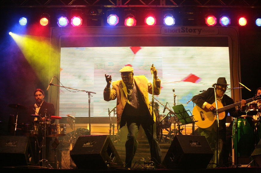 Ibrahim Ferrer Jr.